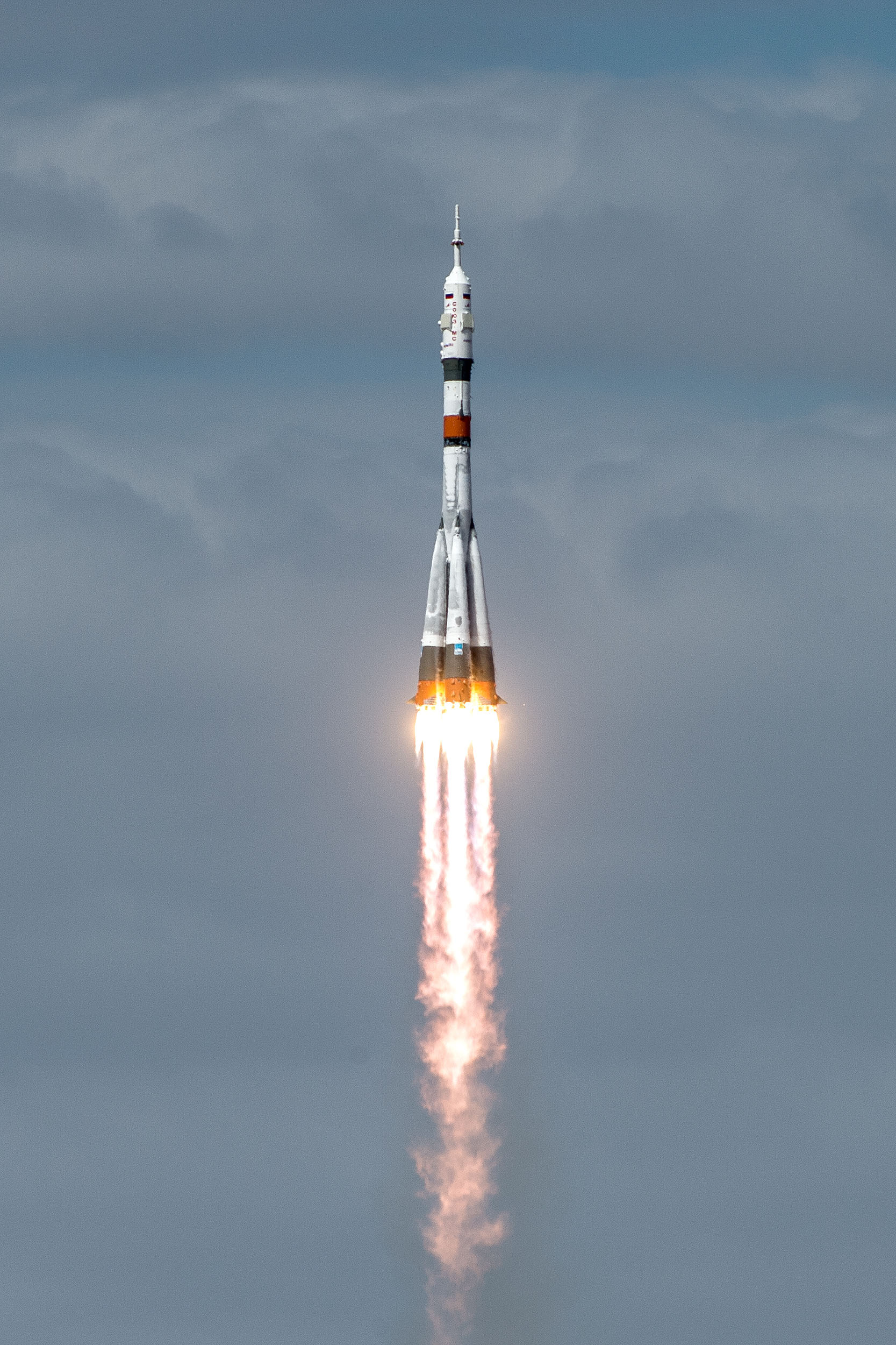 Expedition 63 Launch - The Soyuz MS-16 lifts off from Site 31 at the Baikonur Cosmodrome in Kazakhstan Thursday, April 9, 2020 sending Expedition 63 crewmembers Chris Cassidy of NASA and Anatoly Ivanishin and Ivan Vagner of Roscosmos into orbit for a six-hour flight to the International Space Station and the start of a six-and-a-half month mission.